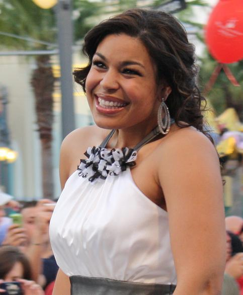 Jordin Sparks, winner of the sixth season of American Idol.